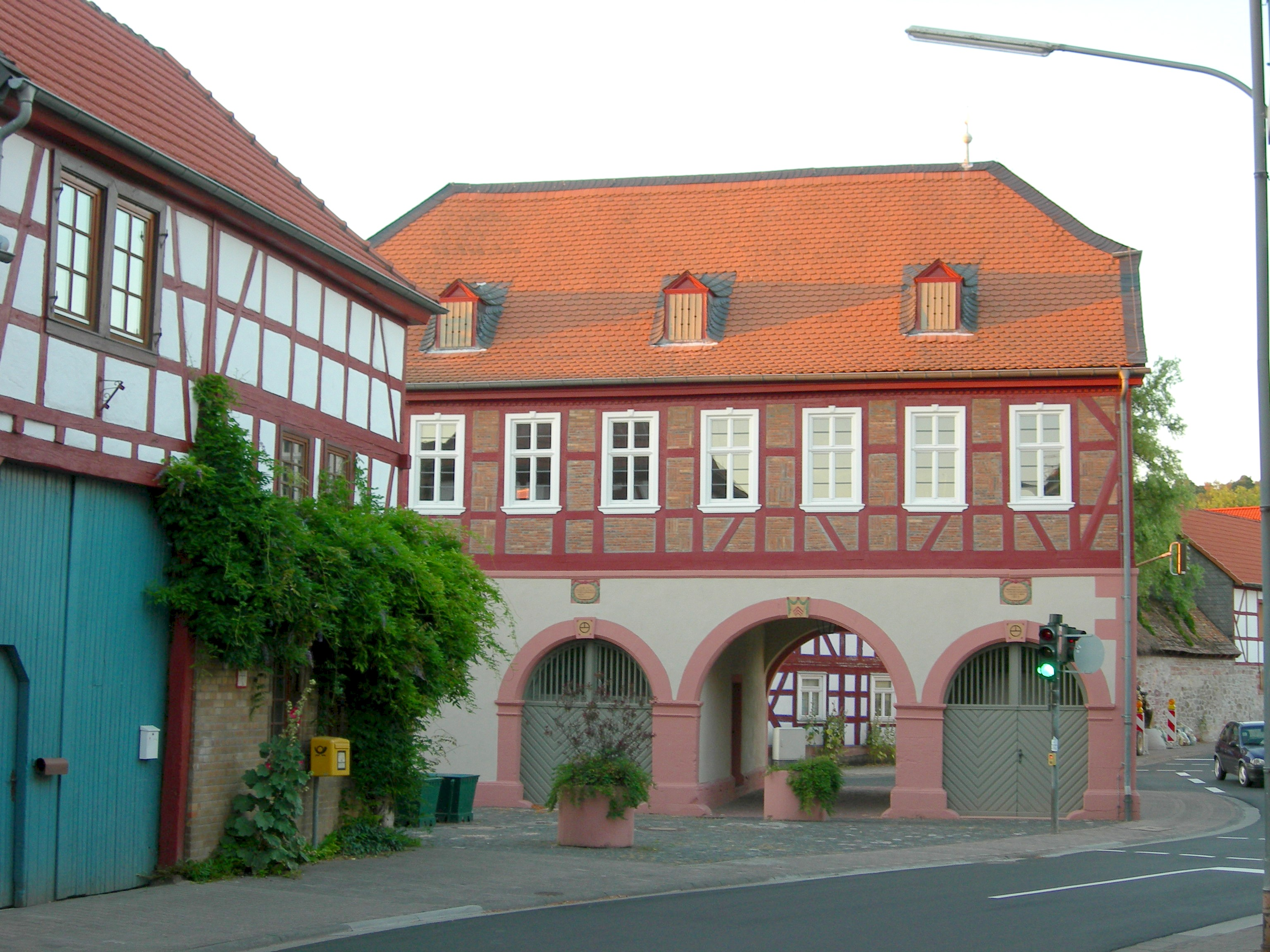 Kleestadt near Groß-Umstadt (Hesse), historic gate house